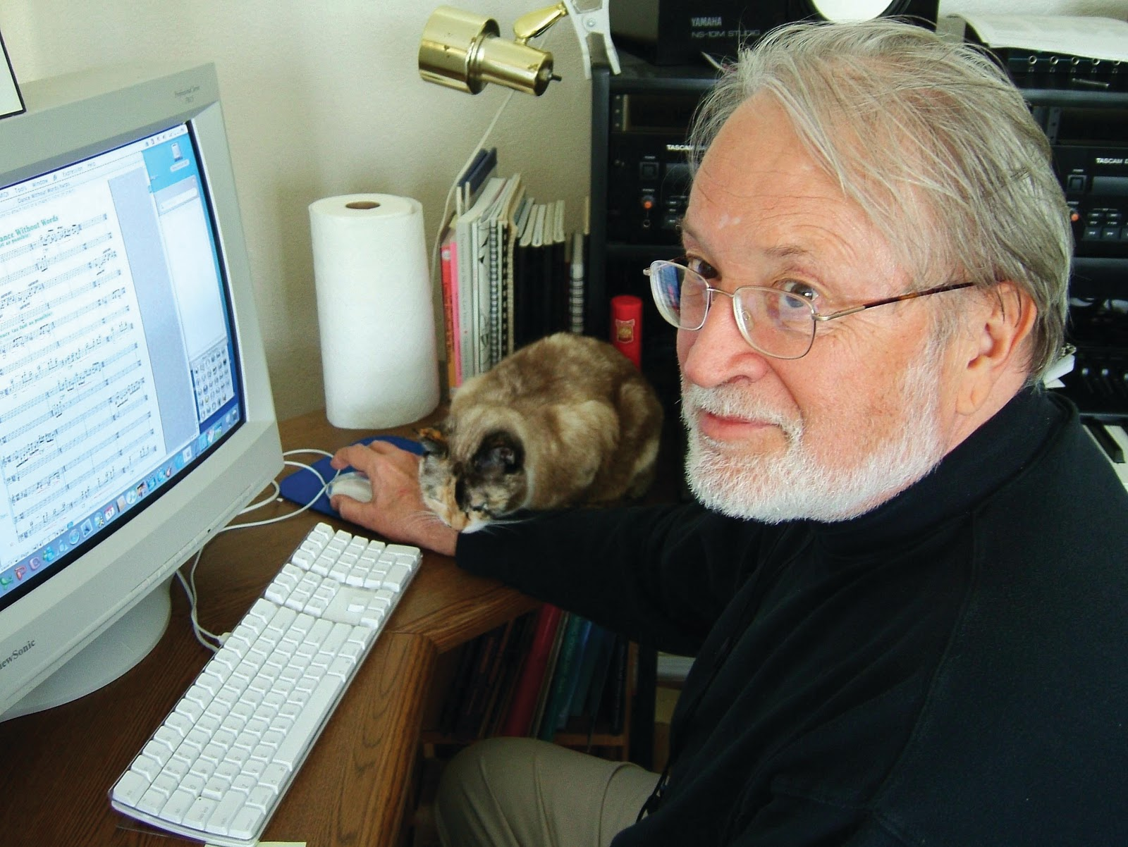 Virko Baley composing c. 2014.